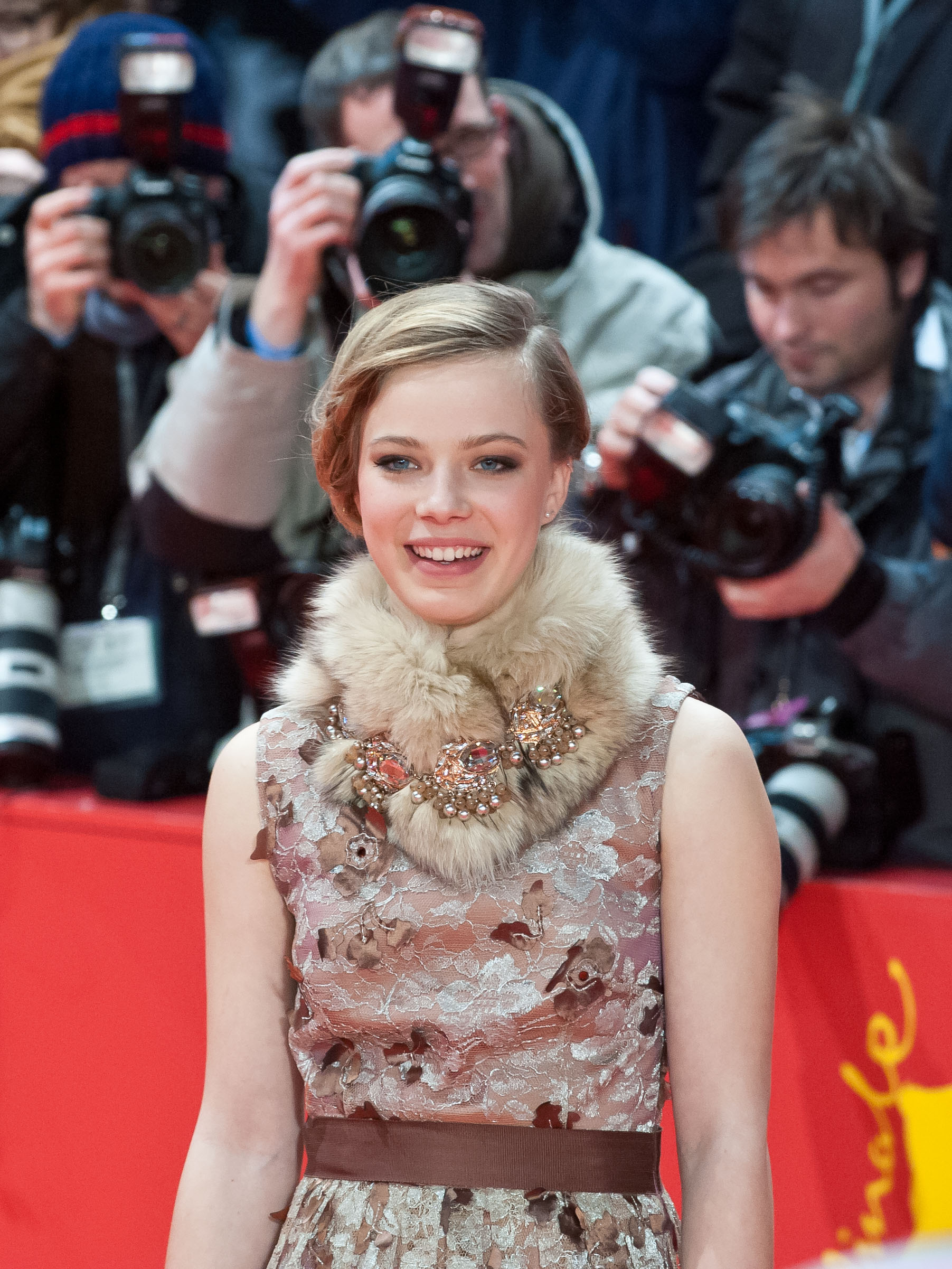 German actress Saskia Rosendahl, arrival for the European Shooting Stars Award Ceremony